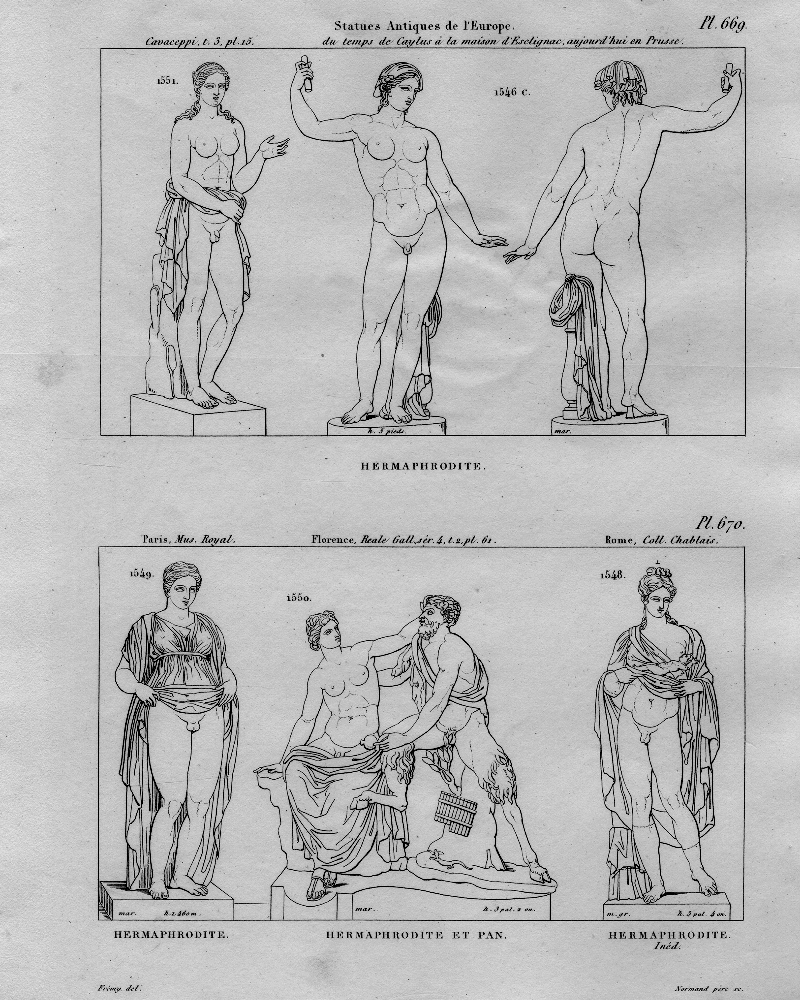 Statues of Hermaphroditos, Sculpture Museum Antique and Modern, Statues Plates, Volume IV